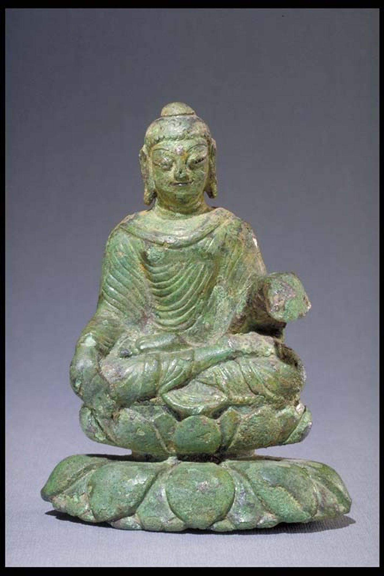 Photograph of the Helgö Buddha at the Statens historiska museum